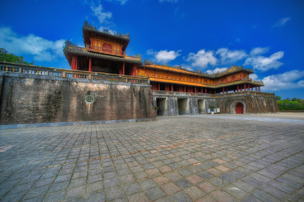 On the northern bank of Perfume River has relics consisting of palaces, which were constructed as arc defensive ramparts with 11km length. This valuable construction includes more than 100 architectural works which were extremely reflected the life of Emperors and mandarins under reign of Nguyen.